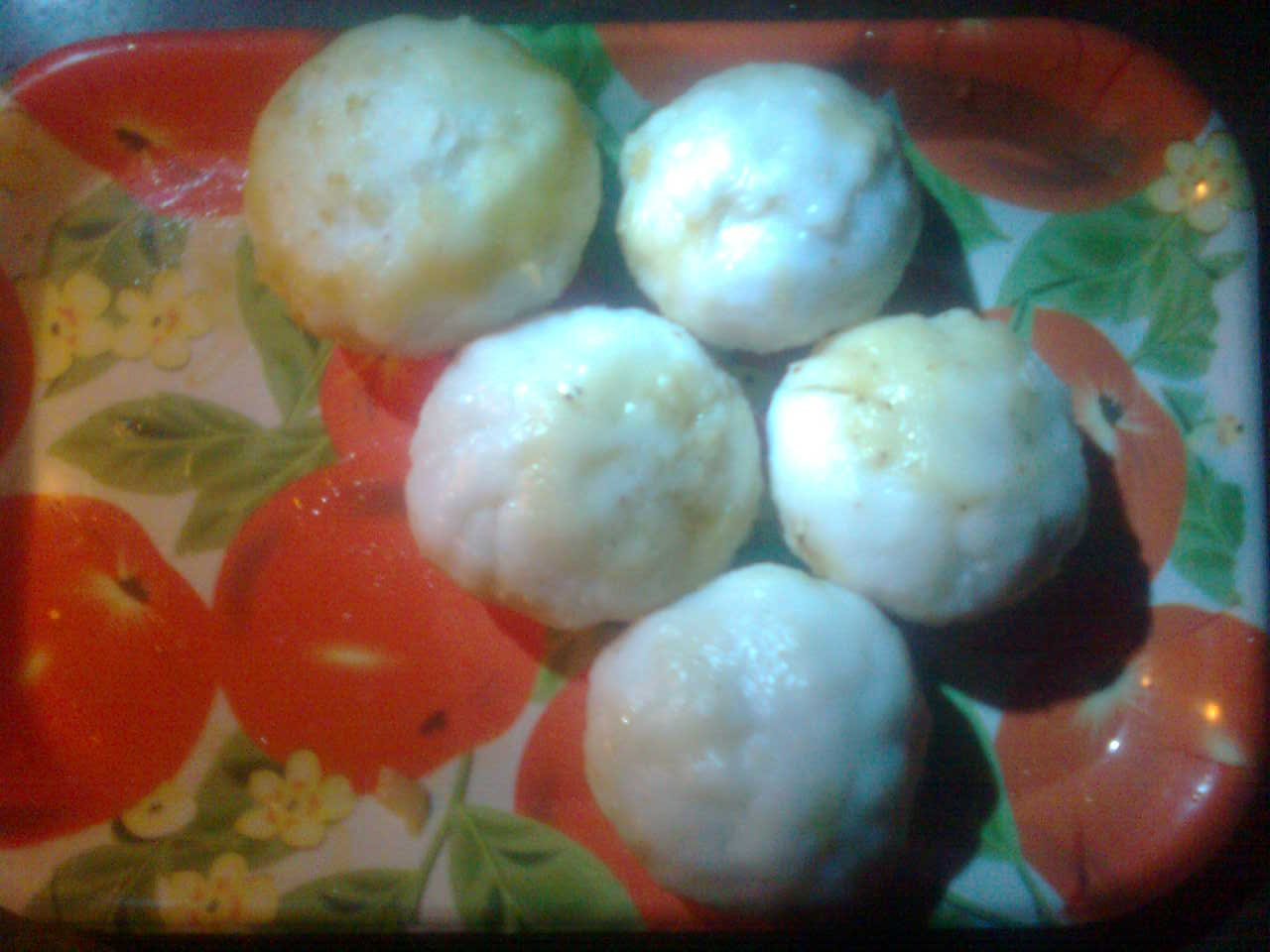 Pitha made from rice flour with cocnut,jaggery,black pepper filling